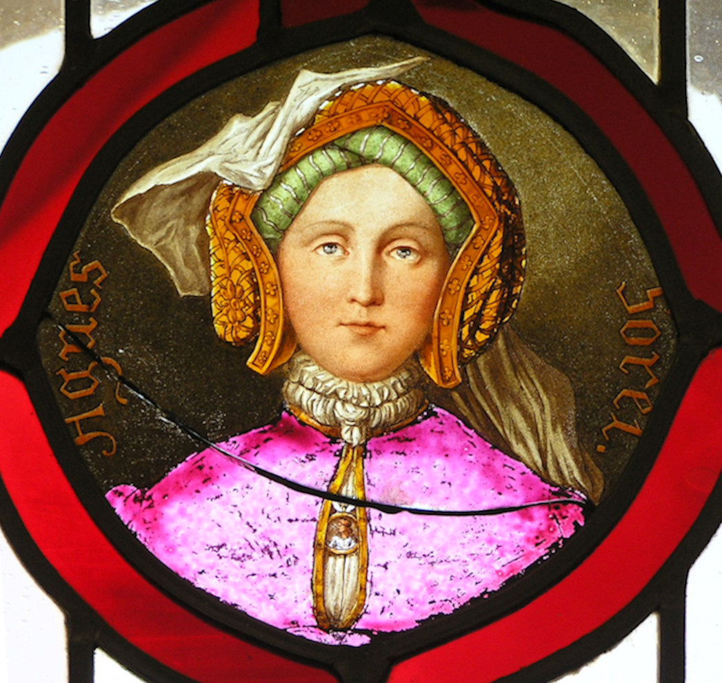 Agnès Sorel, glass painting in the castle of Loches